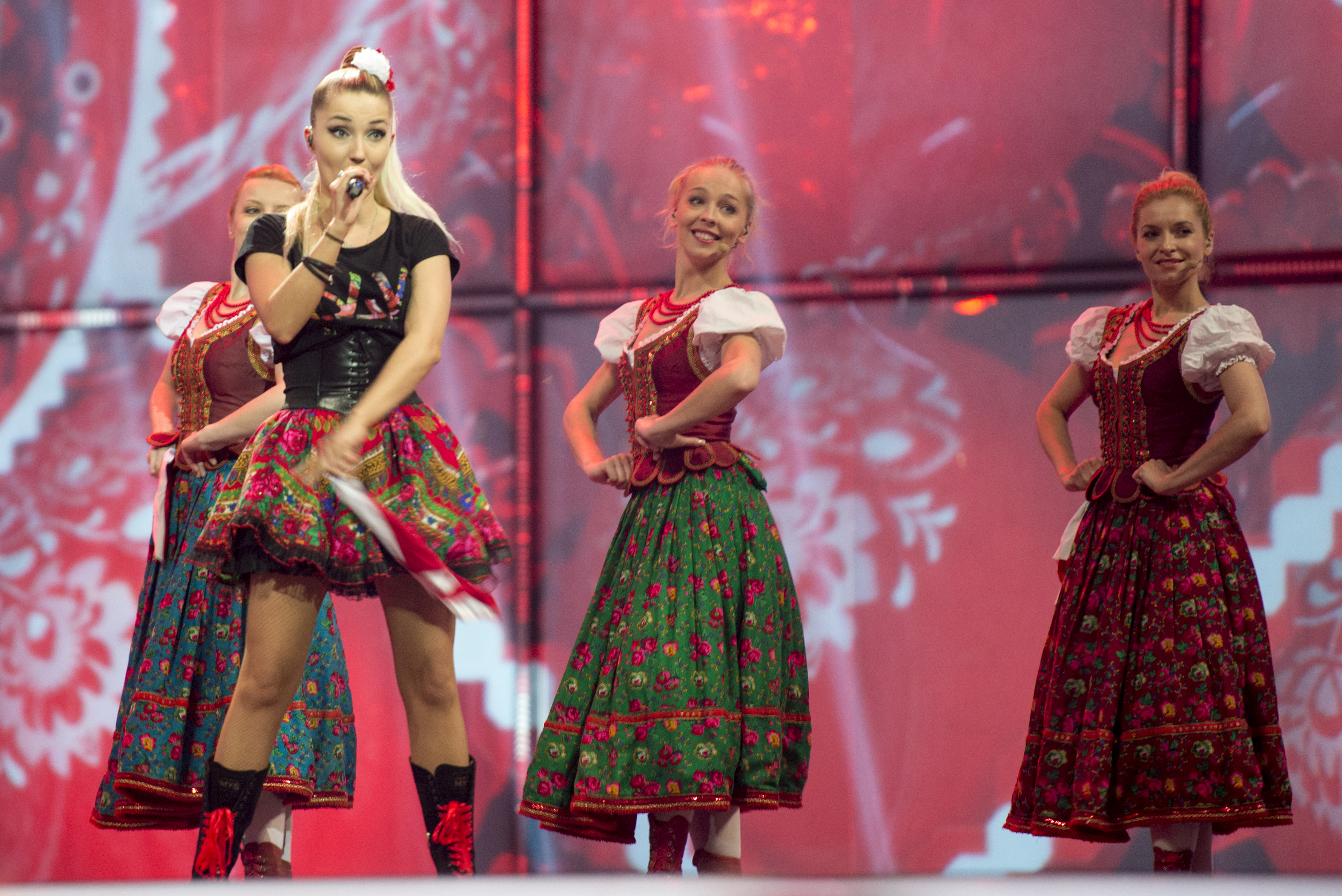 Donatan and Cleo representing Poland with the song "My Słowianie" during the first dress rehearsal of the final of the Eurovision Song Contest 2014 Copenhagen. (Help translate this text)